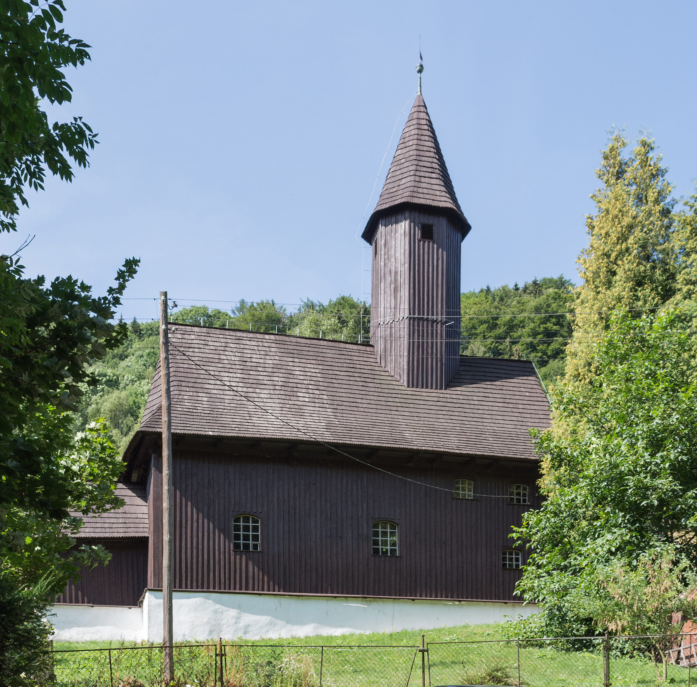 Saint Anne church in Zalesie